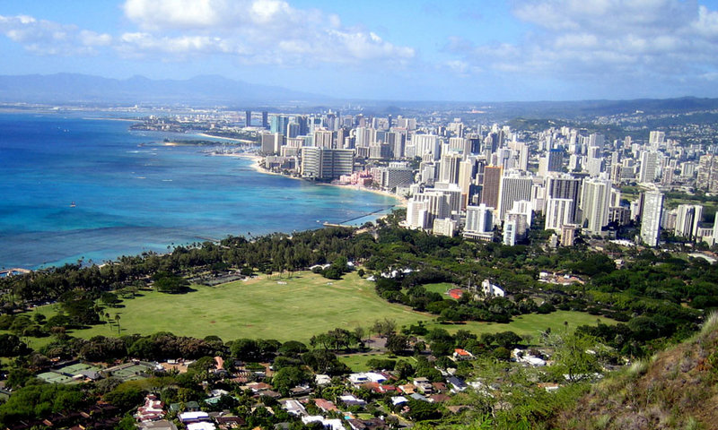 Photograph of the Waikiki beach/downtown portion of Honolulu (Oahu Island of Hawaii). This photo was taken from the slopes of the Diamond Head crater (east of Waikiki).